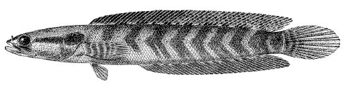 Drawing of Parachanna africana, entitled "After Boulenger, 1916", from USGS publication For article on Parachanna africana